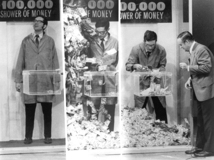 Promotional photo of the "shower of money" which was part of the television game program Concentration at one point in the program's history.